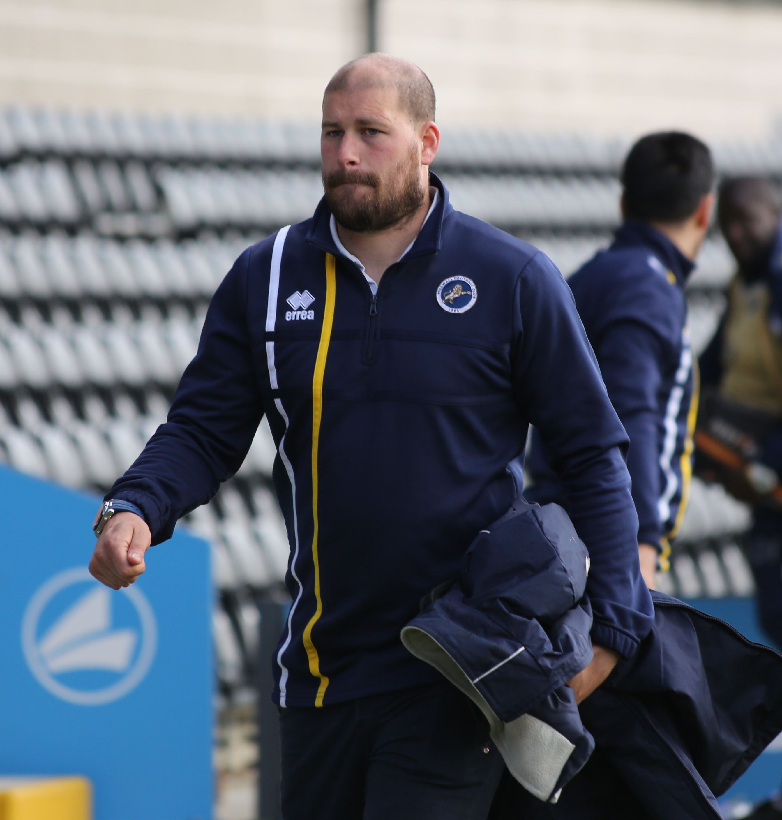 London Bees v Millwall Lionesses, 15 April 2017